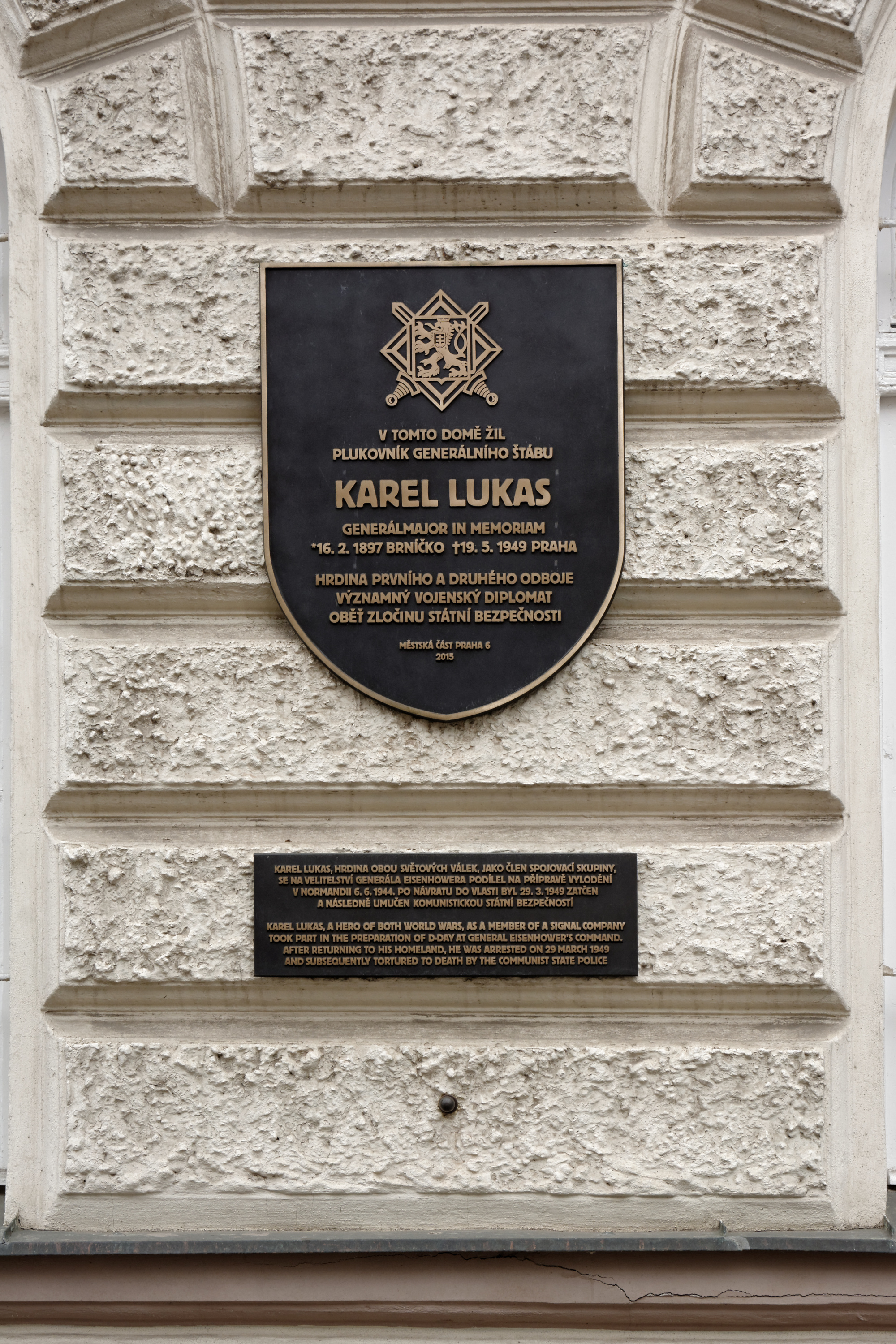 Karel Lukas, a hero of both world wars, as a member of a signal company took part in the preparation of D-day at general Eisenhower´s command. After returning to his homeland, he was arrested on 29 March 1949 and subsequently tortured to death by the communist state police.